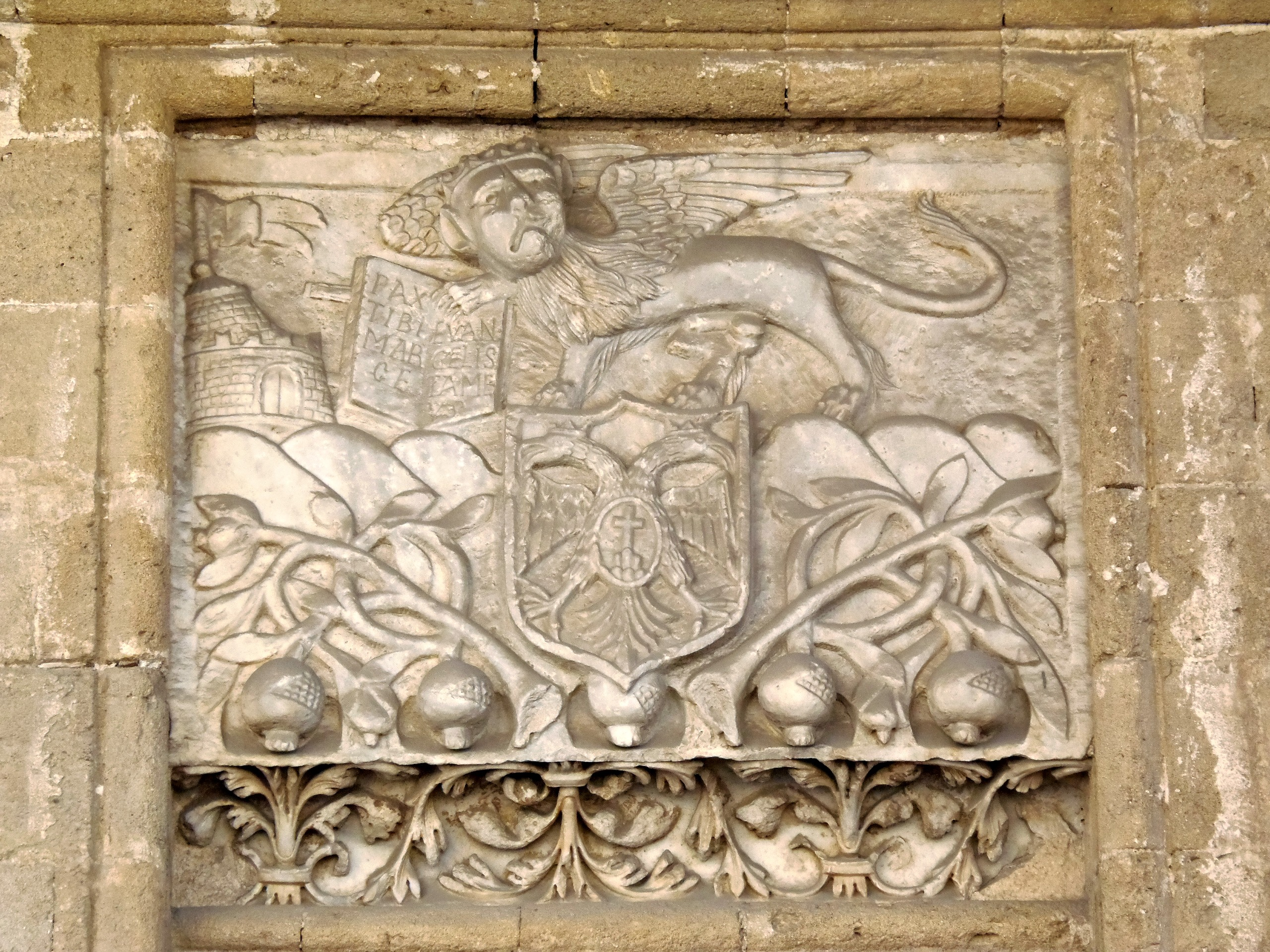 Marble slab with the winged Lion of Venice above the entrance arch of the Hadzhigeorgakis Kornesios'house (now Ethnographic Museum) in Nicosia, Cyprus.